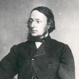 CROP of photograph of Vincenzo Botta, Italian (emigre, 1853) professor of Philosophy, Italian language and literature at the University of the City of New York from 1864 until his death in 1894.